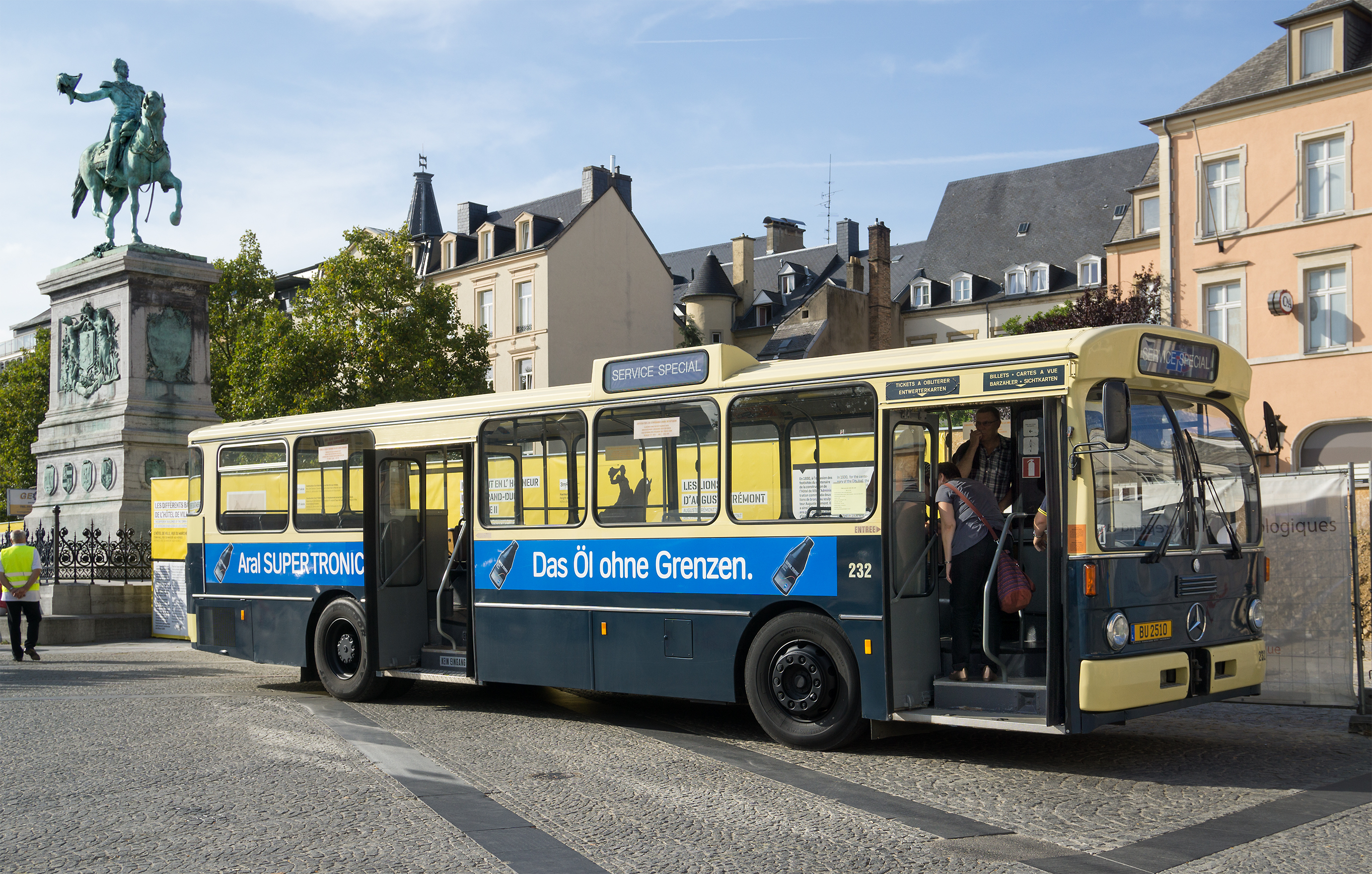 The restored Mercedes-Benz O 305 bus Nr. 232 built in 1983 in Luxembourg-City on the "Knuedler"